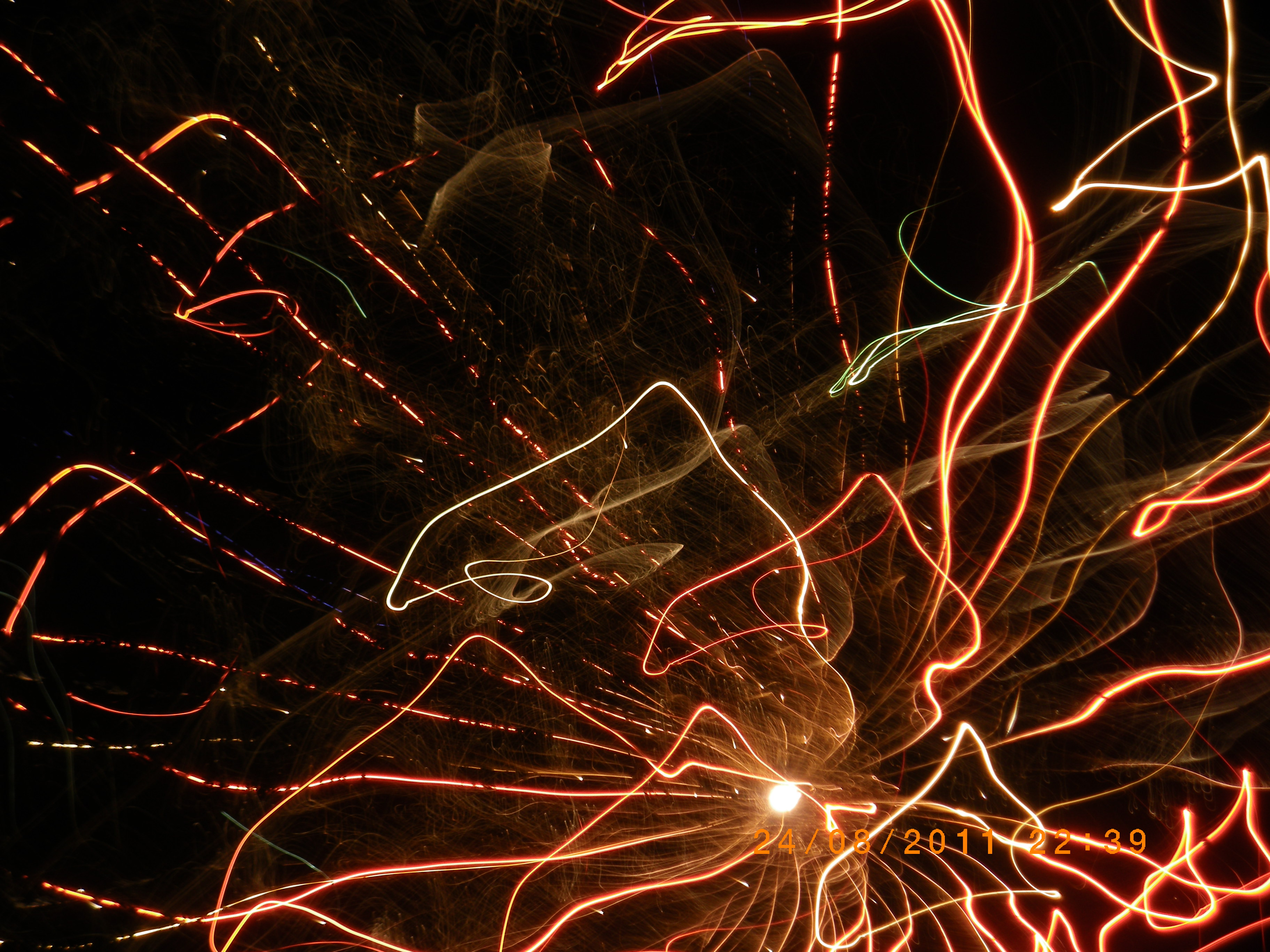 Salutes in Yerevan, 2011